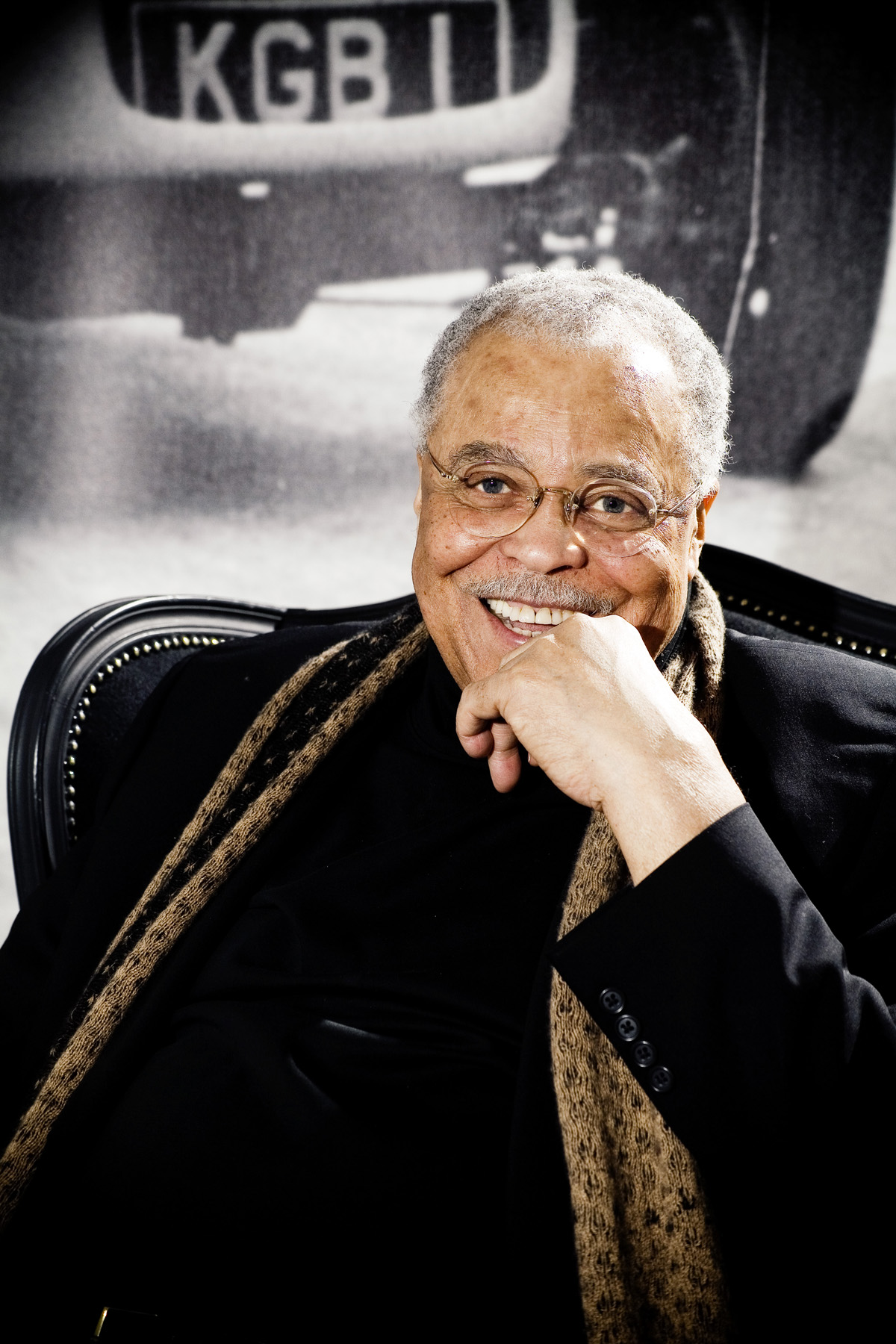 James Earl Jones in 2010.